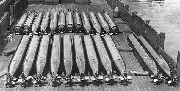 U.S. Navy Bliss-Leavitt 21" (53.3 cm) Mark 8 torpedoes (without warheads) on a barge at a U.S. Navy Yard, circa in 1925. Some of these torpedoes are marked "300" and "305", indicating that they were assigned to the destroyer USS Farragut (DD-300) and USS Thompson (DD-305).